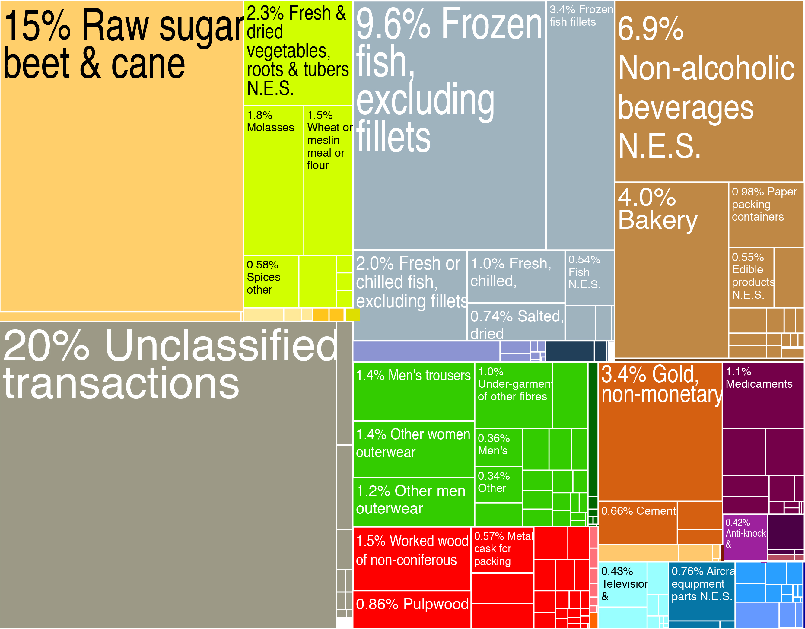 Exports of Fiji Treemap. Year 2009